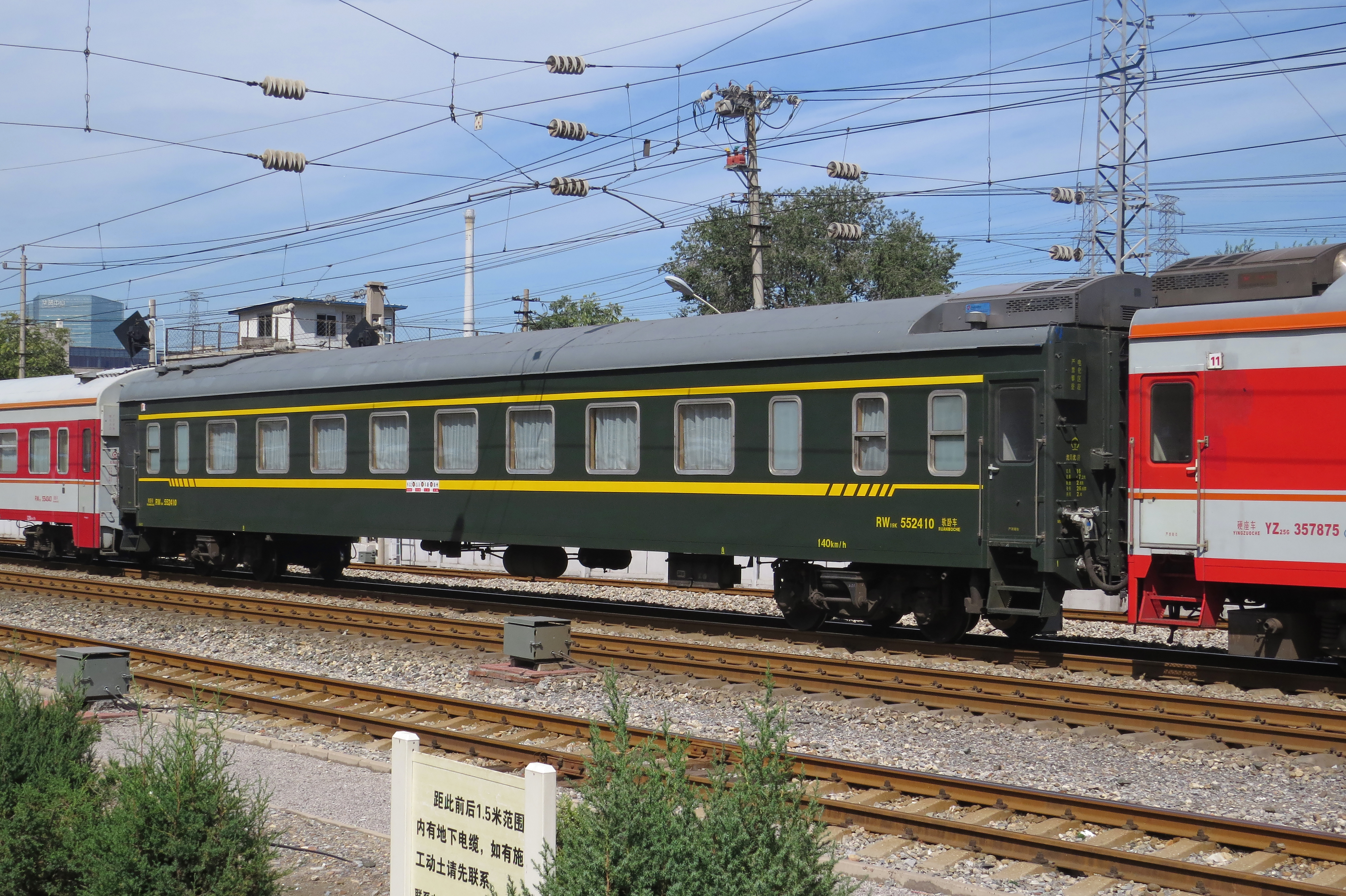 Y521 to Huairou North. This is the first train of Shenyang Railway Bureau that I spotted after the downfall of Wang Zhanzhu, the former administrator. K915 added a deluxe sleeper recently, using...this first generation RW19K, transferred from Shanghai Railway Bureau. This very coach (said to equip a shower room) was initially deployed to the Shanghai-Kowloon train.